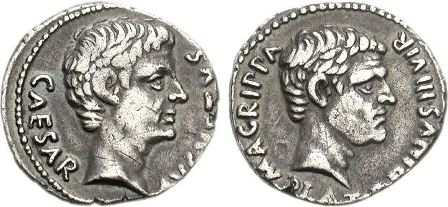 Augustus, with Agrippa. 27 BC-AD 14. AR Denarius (3.88 g, 7h). Rome mint. Caius Sulpicius Platorinus, moneyer. Struck 13 BC. CAESAR AVGVSTVS, bare head of Augustus right / M • AGRIPPA PLATORINVS • III • VIR, bare head of Agrippa right. RIC I 408; RSC 3 (Agrippa and Augustus); BMCRE 112-4 = BMCRR Rome 4654-6; BN 533-5. Good VF, toned, a few scratches under tone, minor smoothing on edge. Rare.